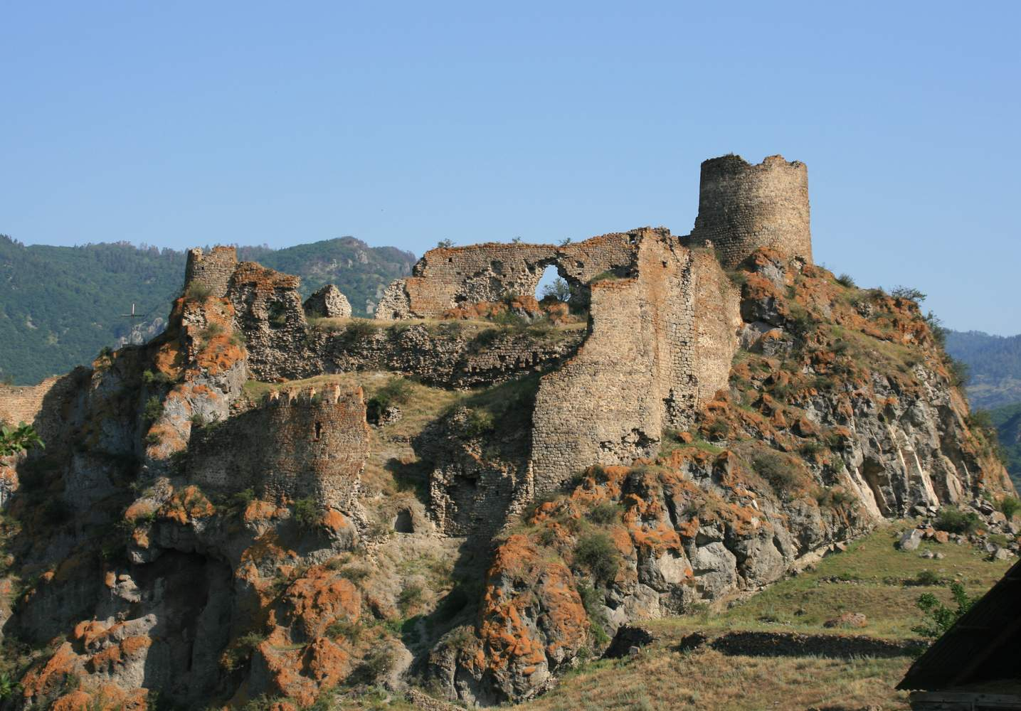 Atskuri fortress, Georgia